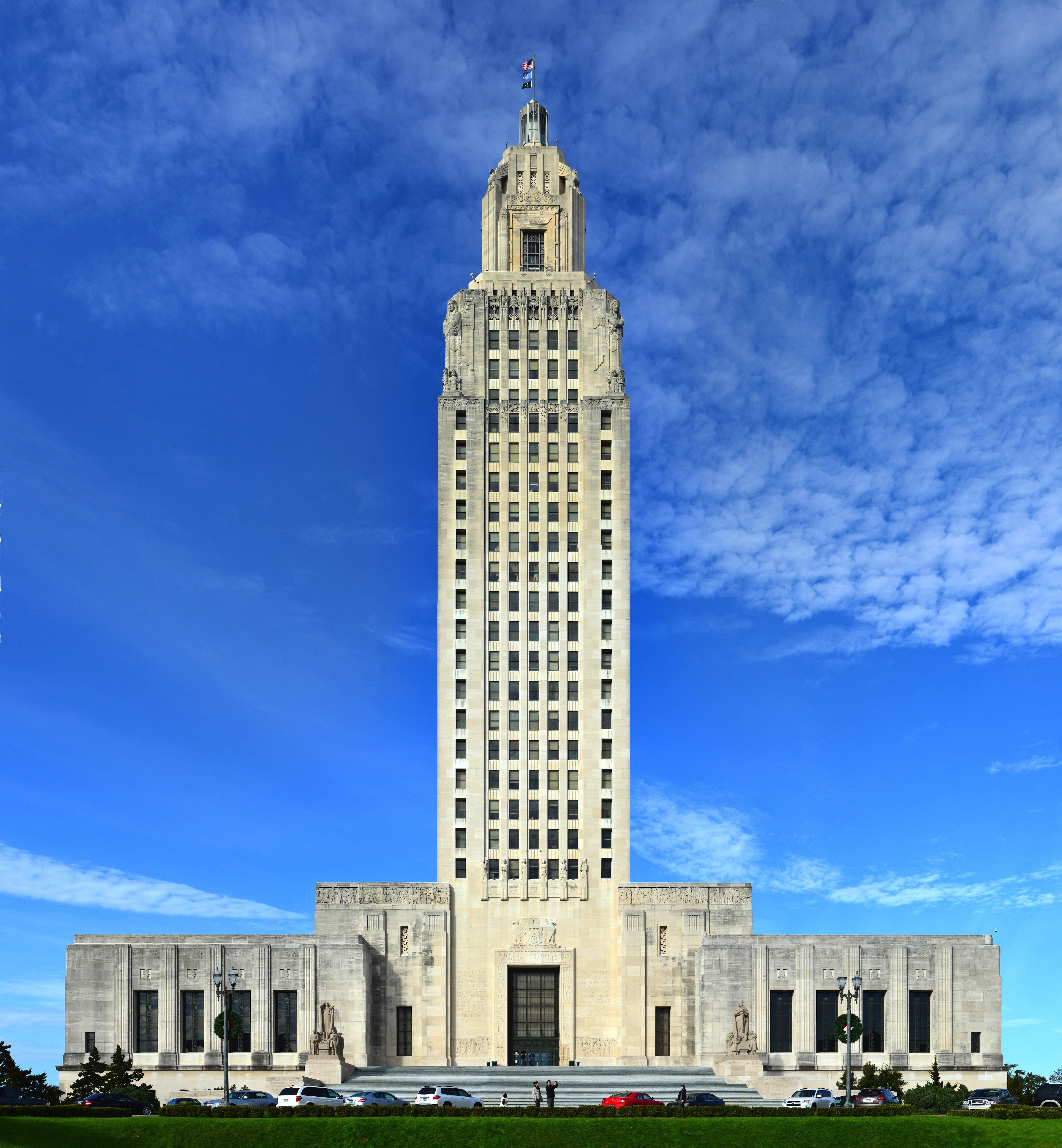 Louisiana State Capitol Building, Baton Rouge